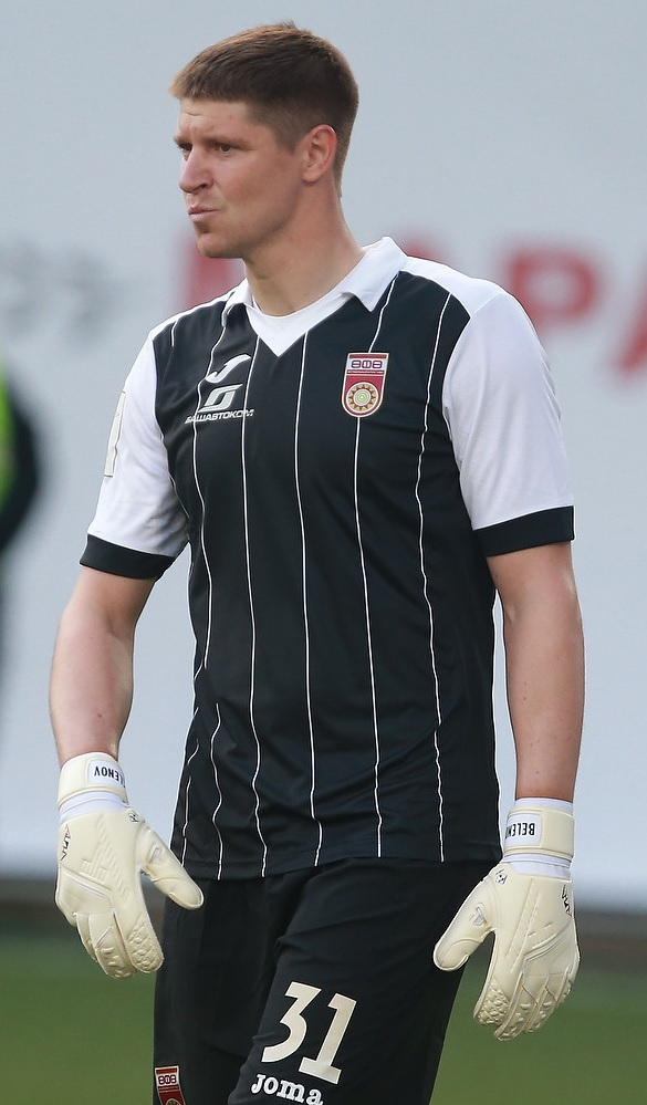 Aleksandr Belenov with FC Ufa in a game against FC Dynamo Moscow.